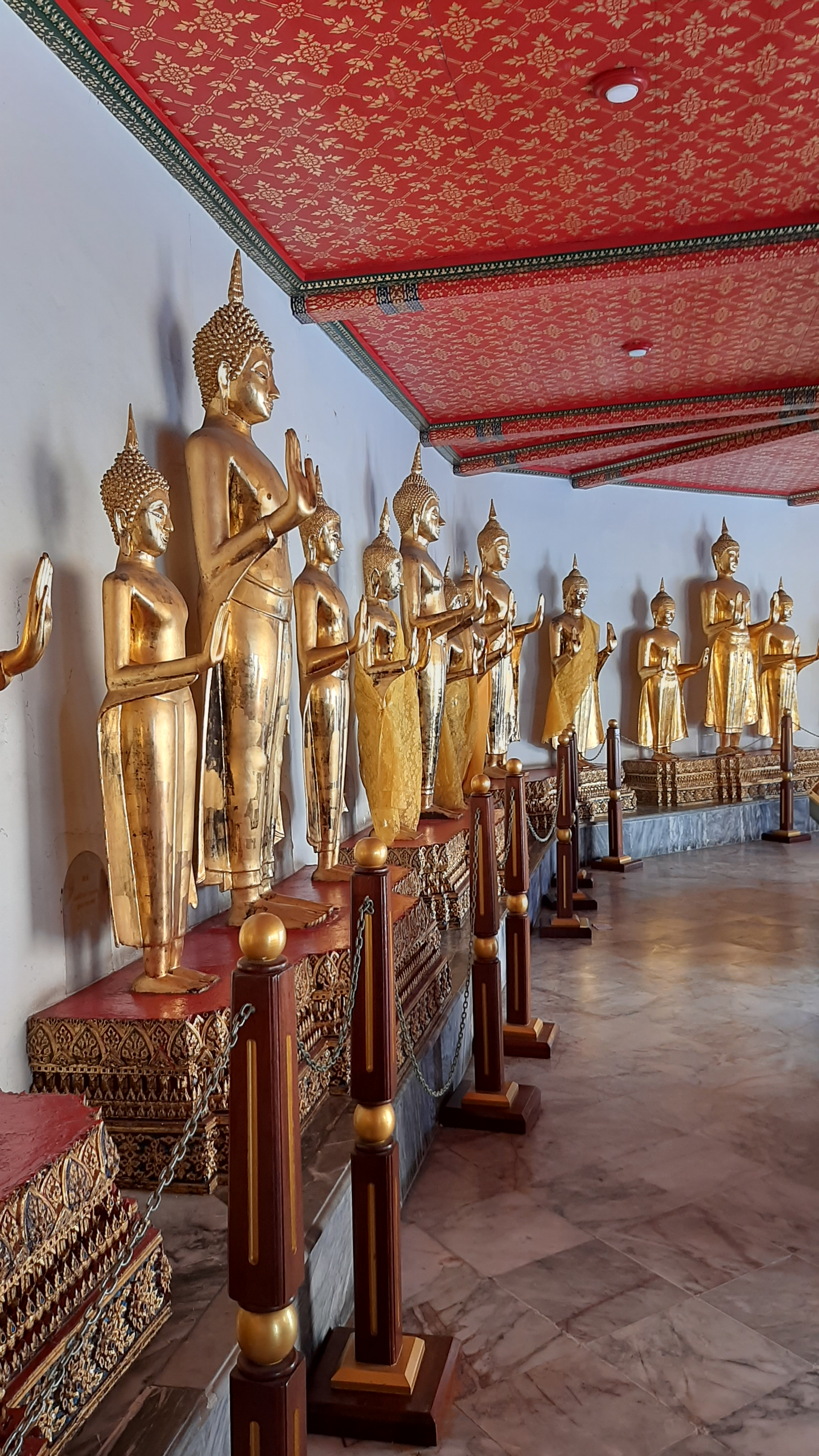 A Statue of Buddha